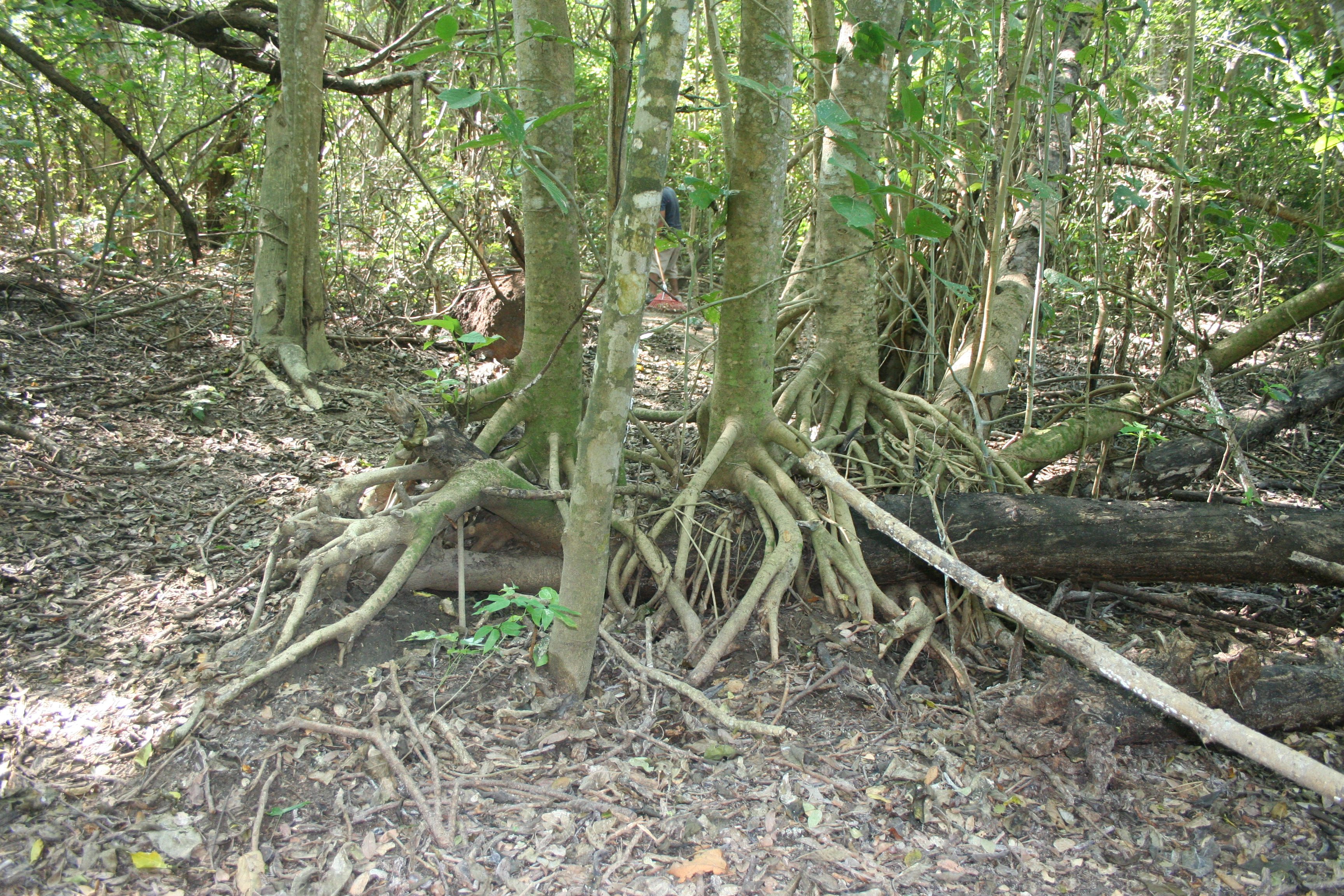 Huatulco National Park — in the Pacific coast region of Oaxaca, Southwestern México. The Humedal El Sanate is a Ramsar site of wetlands protection.